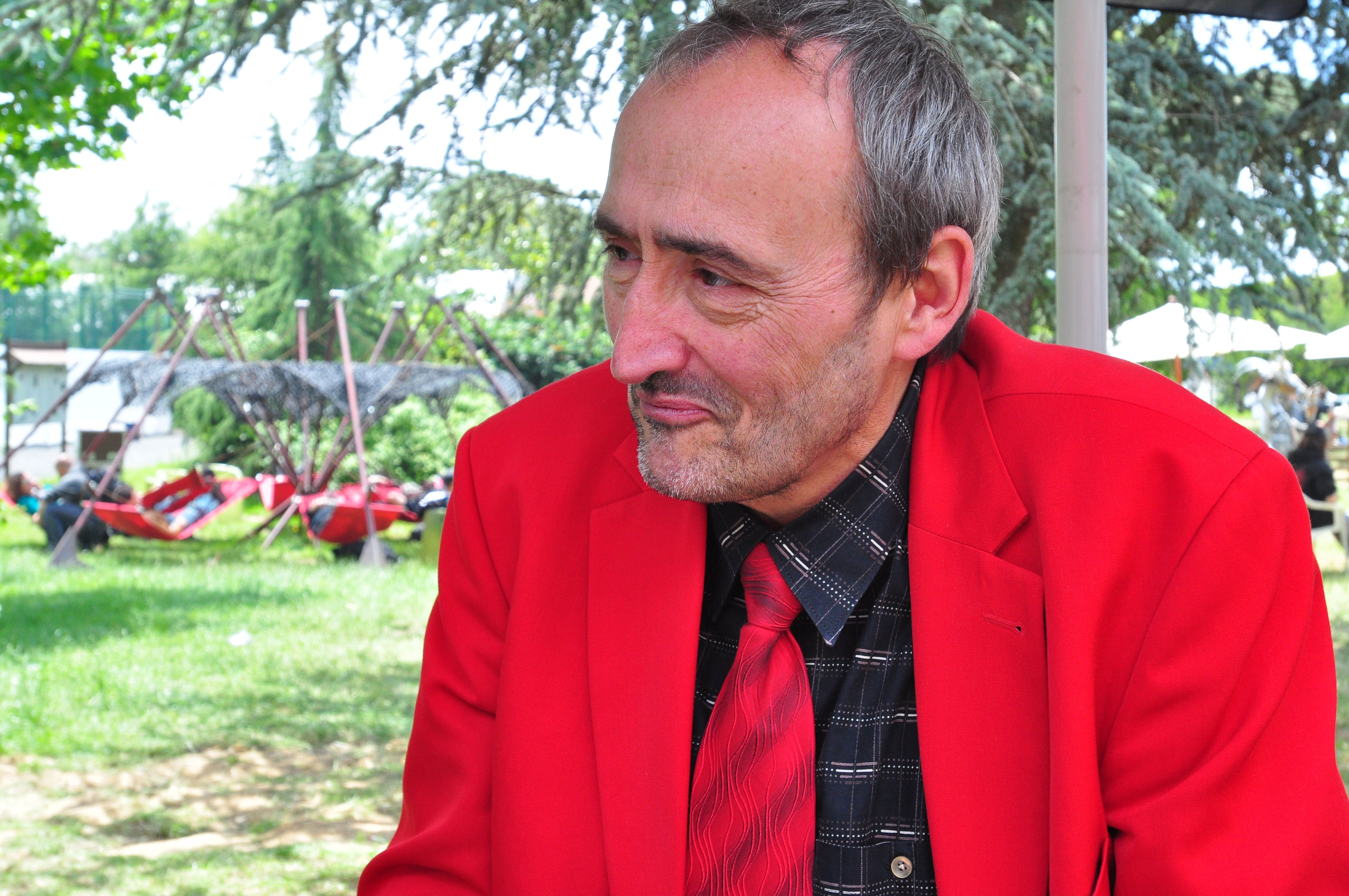 The socialist member of the National Assembly, Partick Roy at the Hellfest festival 2010 few months before its announce about its cancer